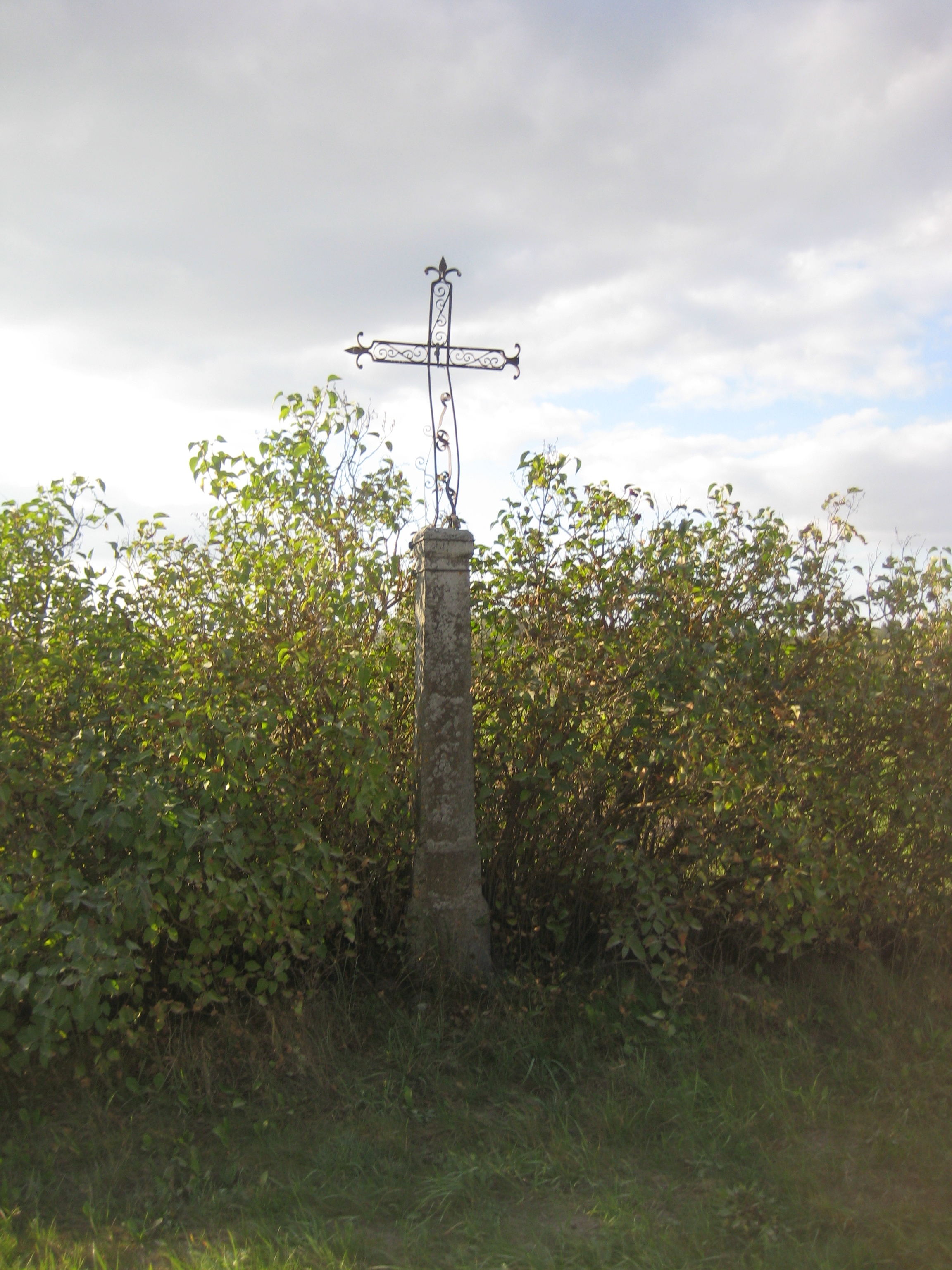 Užpalių sen., Lithuania